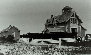 Historic photo of the Cape Hatteras Life-Saving Station, part of the Life-Saving Service (later to become the United States Coast Guard).